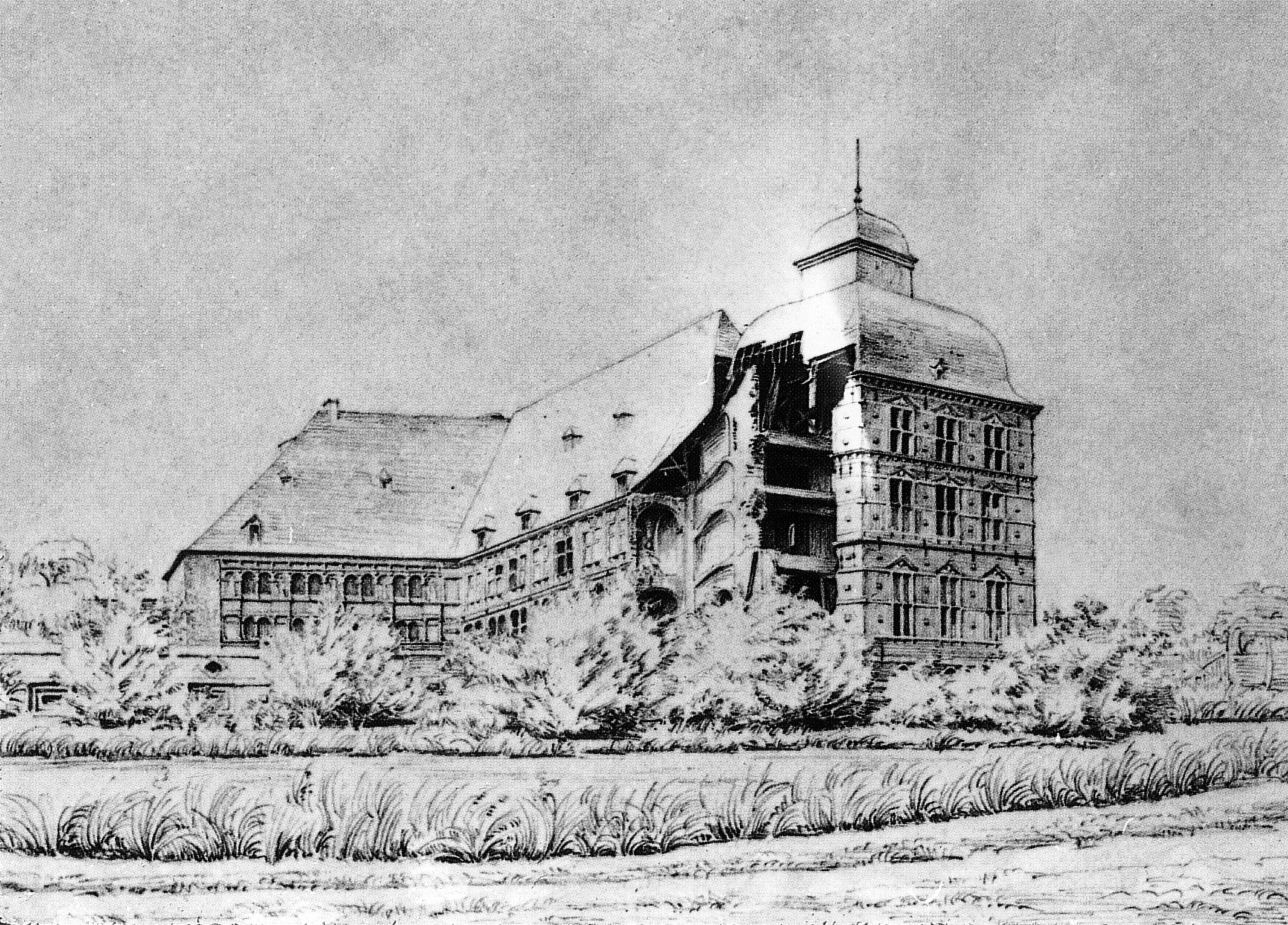 Castle of Horst, south-eastern aspect, old drawing